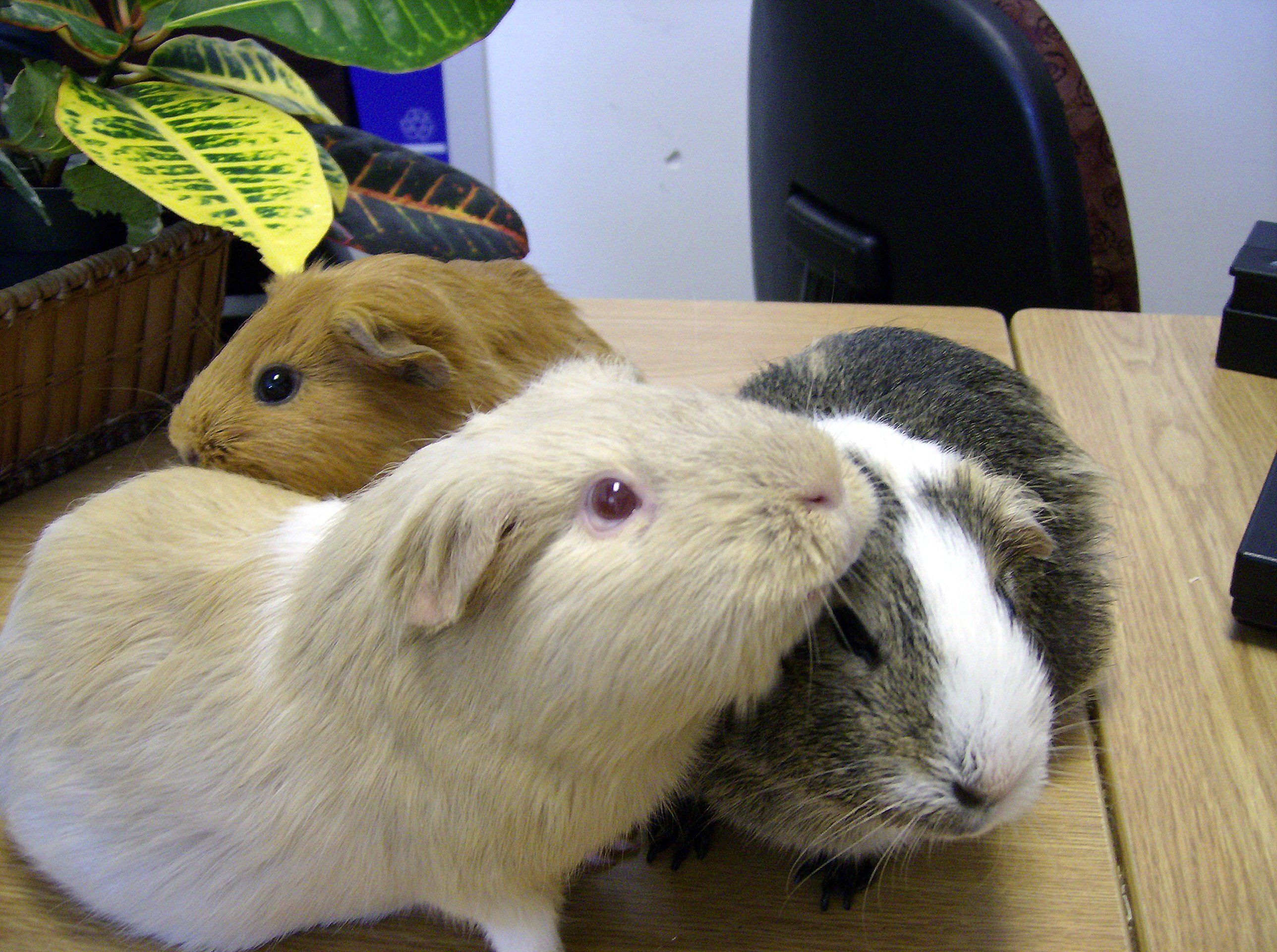 Three famous library pigs in Keswick, Ontario